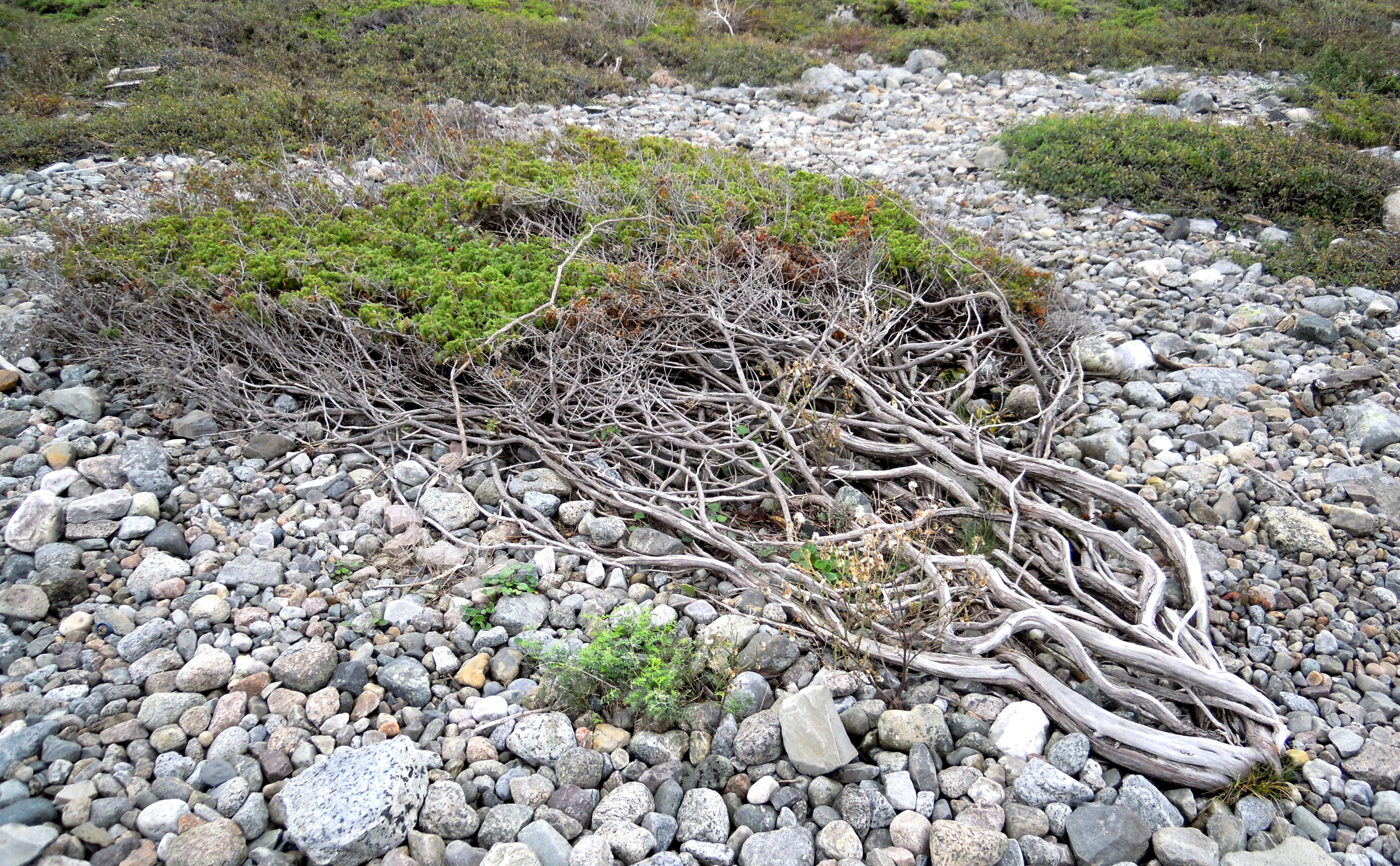 Juniperus communis, the Common Juniper. Mølen (close to the ocean), Norway. Held down by the wind. You are free to use this picture outside Wikipedia (see license), as long as you write: Photo: Arnstein Rønning